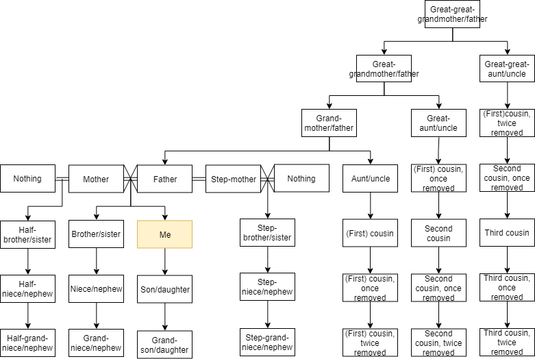 The person of focus (likely the reader) is in yellow. Marriages are double barred, and child-parent relationships are a mono directional line. Divorces are presented as marriages with a cross.